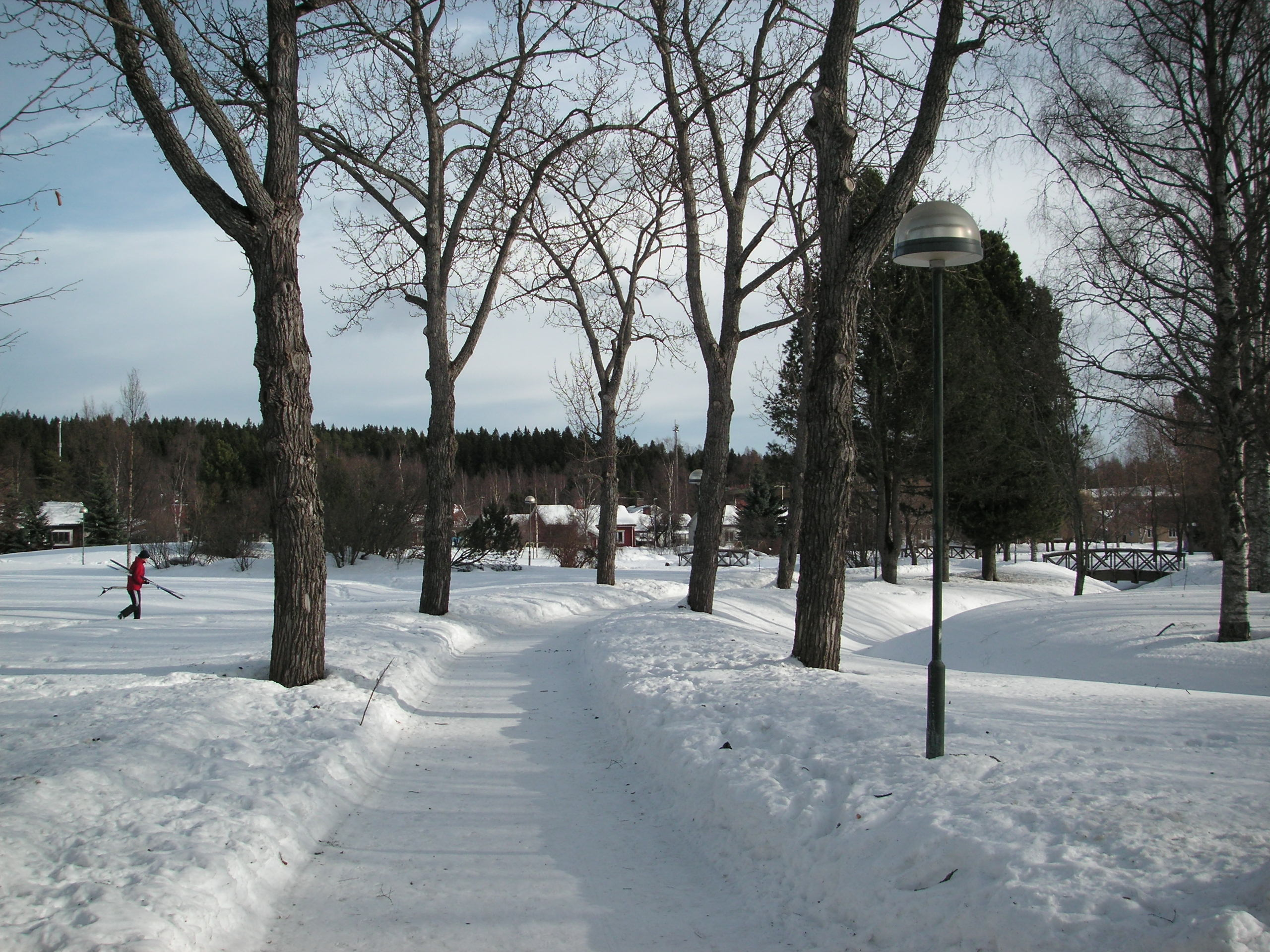 Haga Park in Umeå, Sweden.